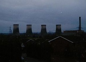 Castle Donington Power Station Taken From Staunton Close Summary Castle Donington Power Station Taken From Staunton Close